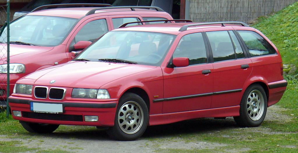 BMW E36 Touring